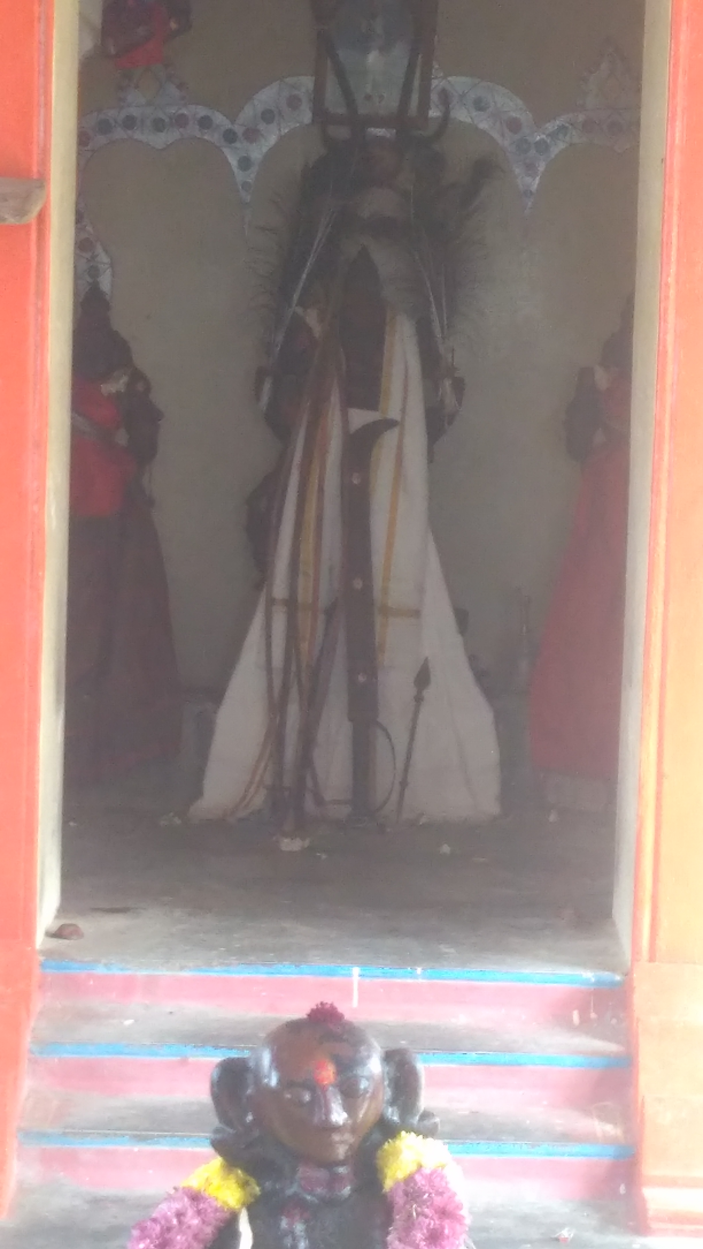 Murugan temple located in murugan nagar some km distance from kunjandiyur city